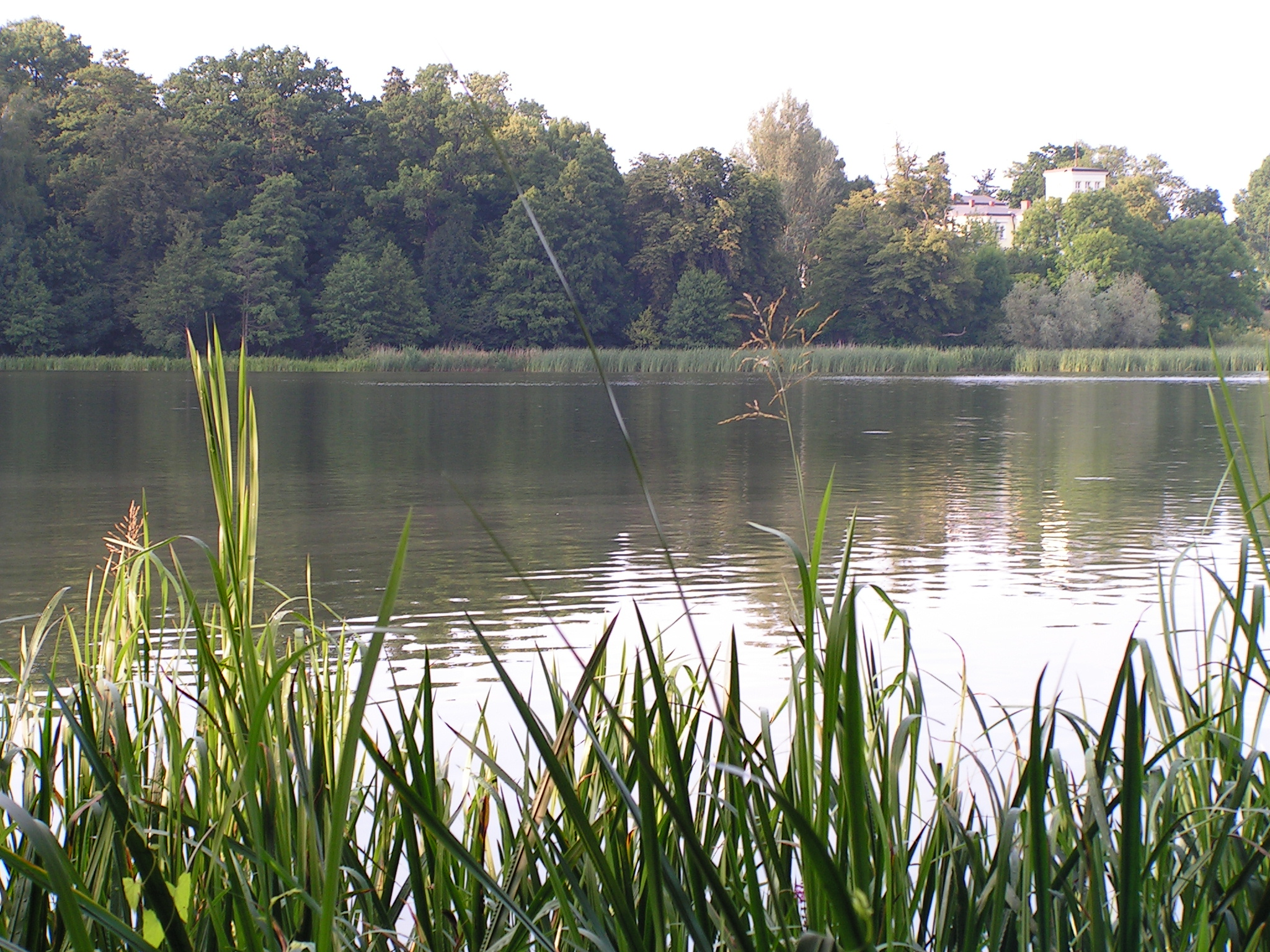 Lake Lubstów